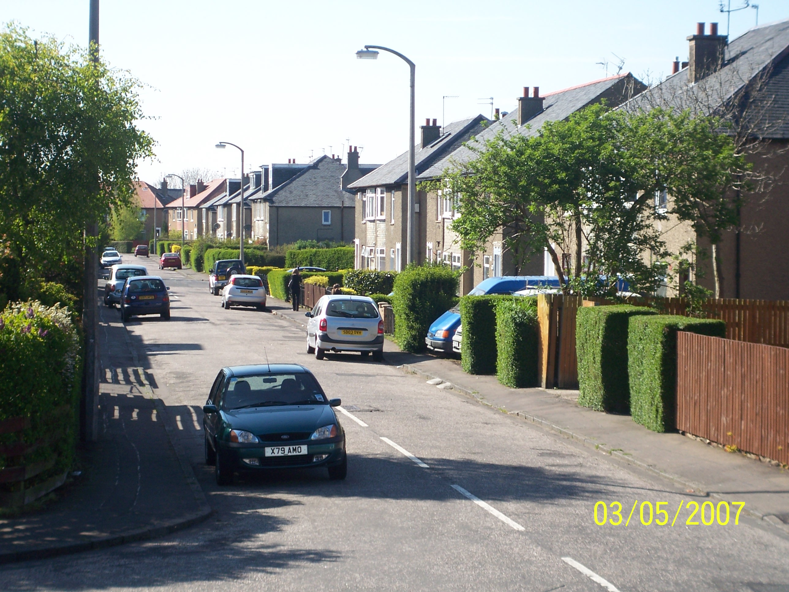 View of typical street in Colinton Mains, which is next to Oxgangs.